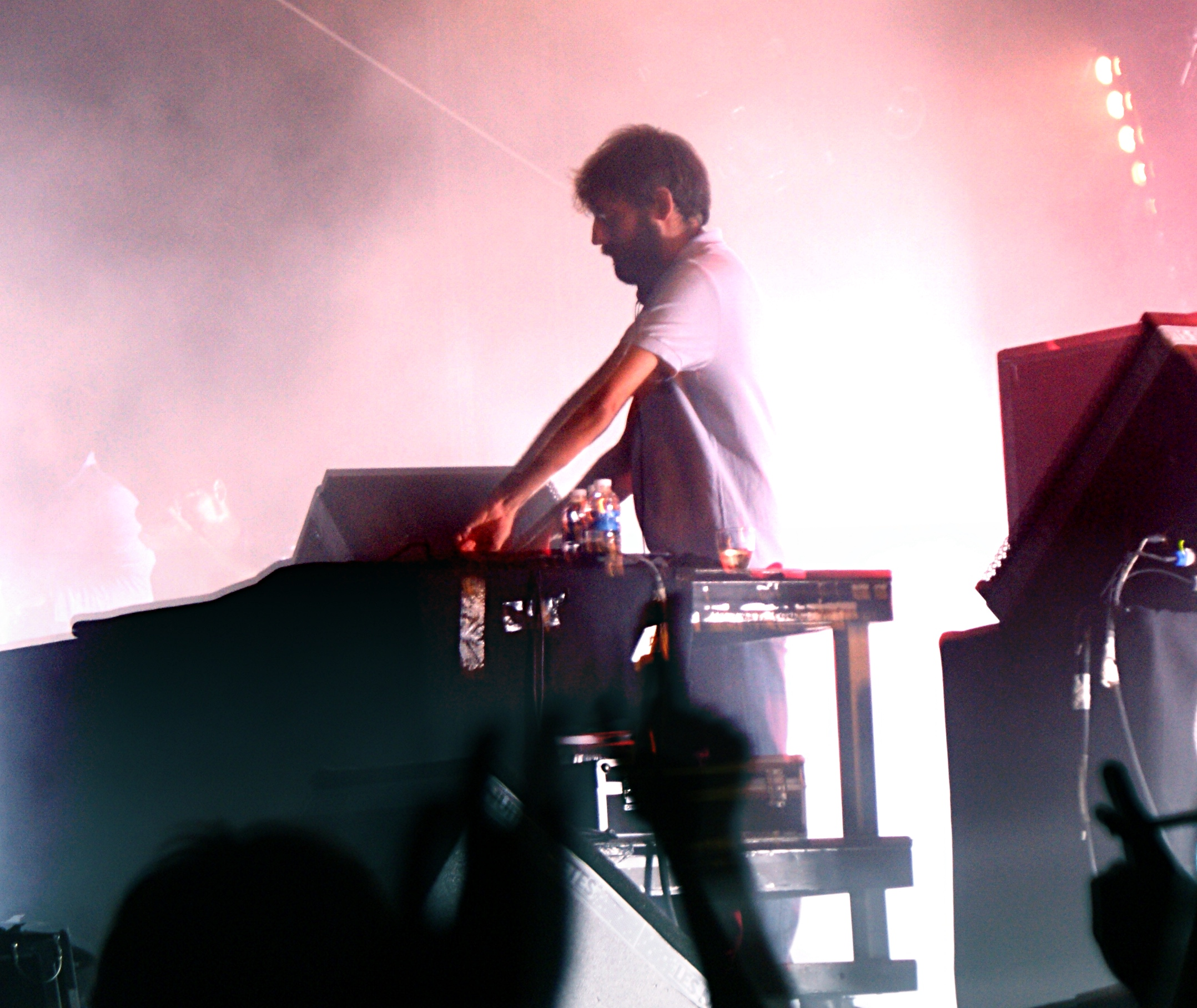 Mr. Oizo at festival Les Nuits secrètes (Aulnoye-Aymeries, France), in 2009.